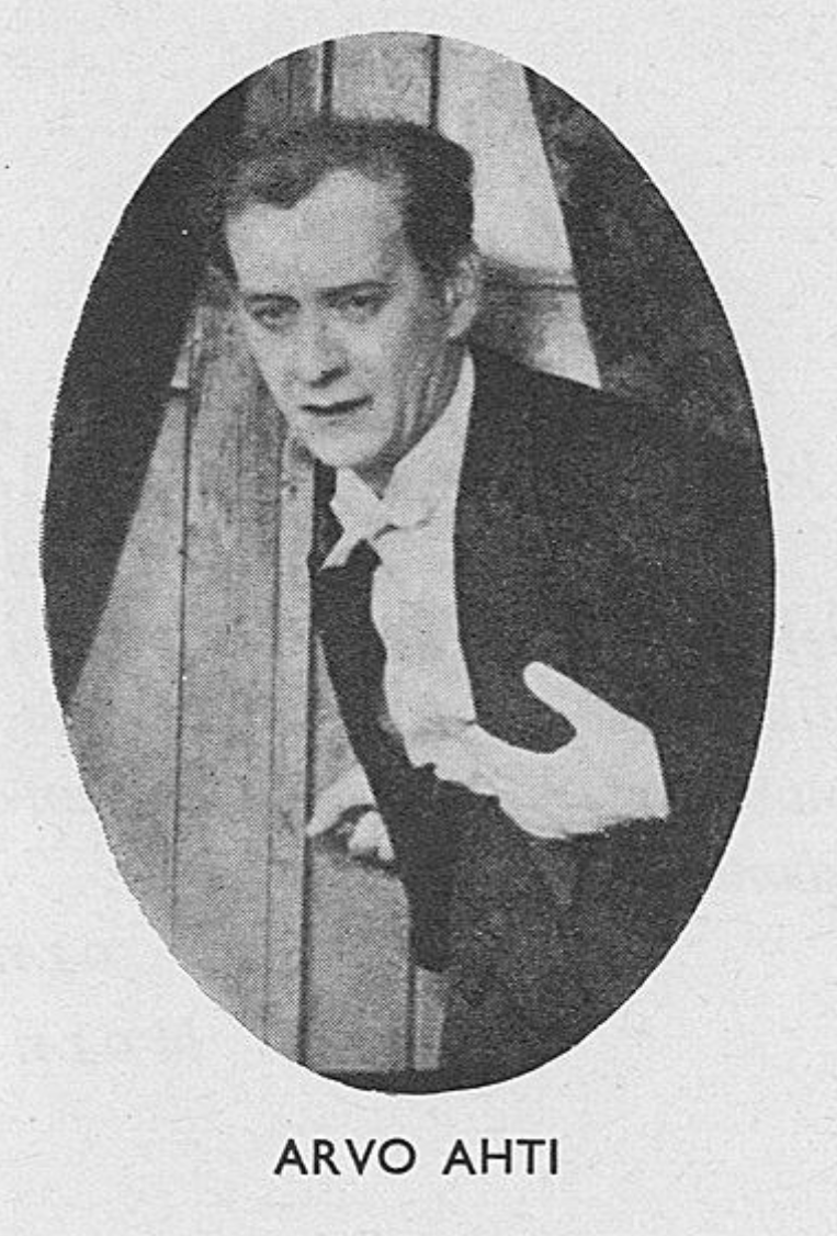 The Finnish actor Arvo Ahti (1891-1939)